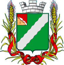 Coat of Arms of Novohopersk 1859